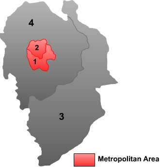 Map of Liaoyuan prefecture in Jilin province